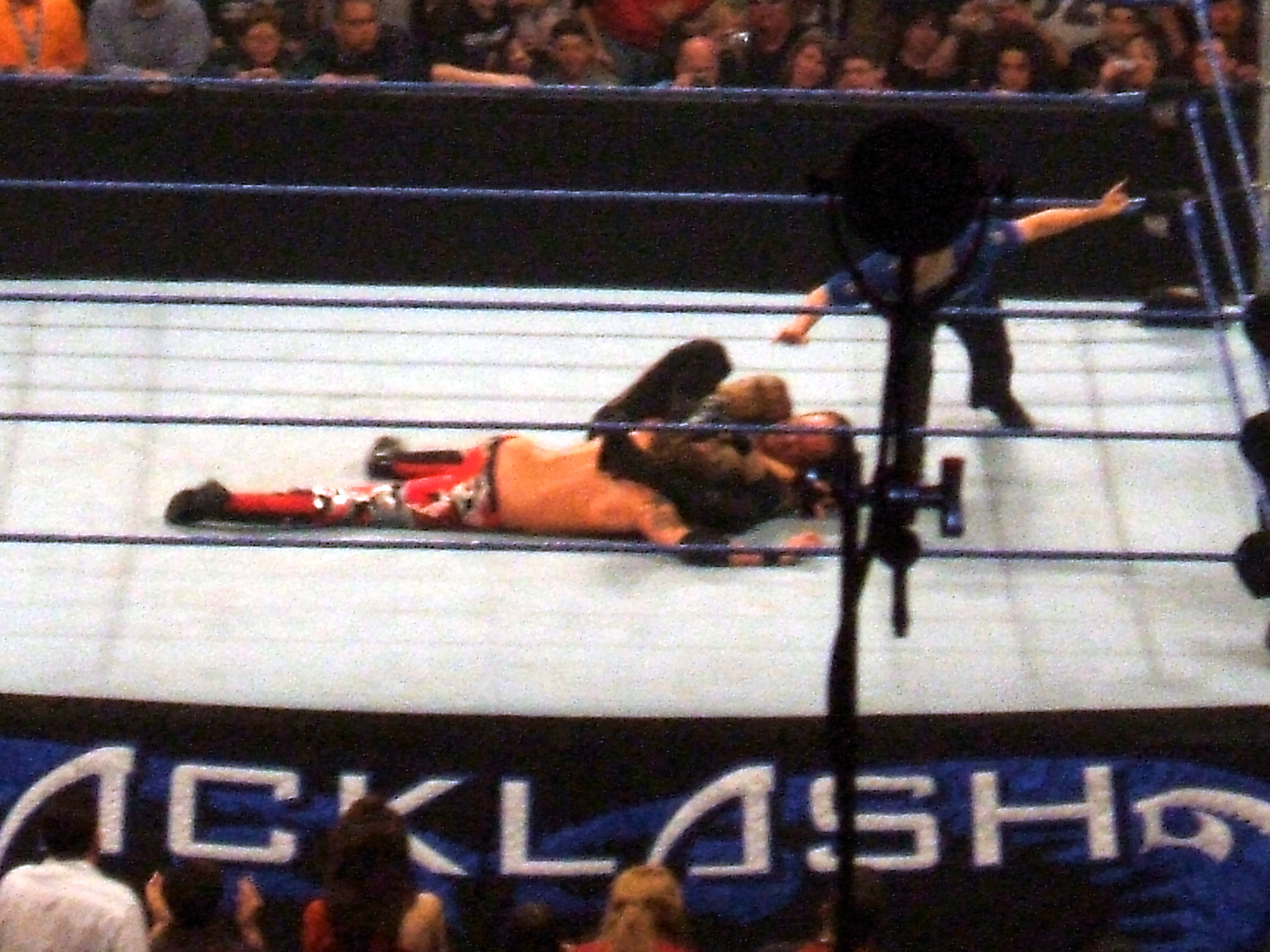 The Undertaker applies the Gogoplata to Edge.